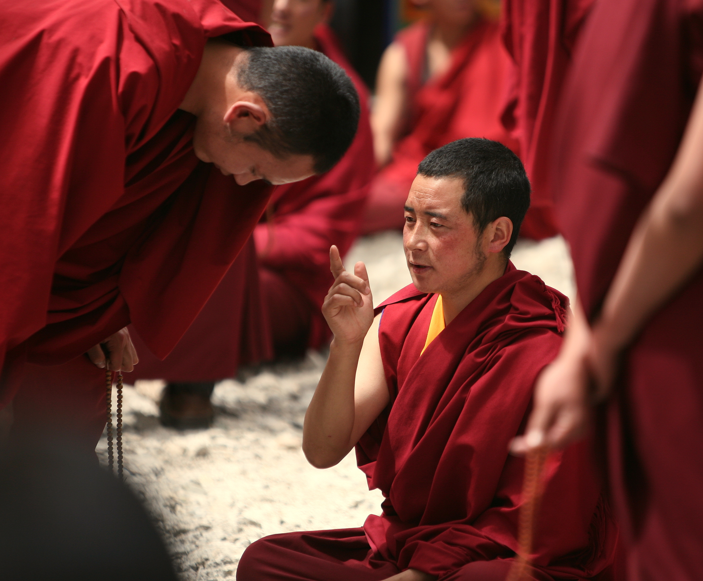 Monks during debate practice at Sera Monastery near Lhasa, Tibet